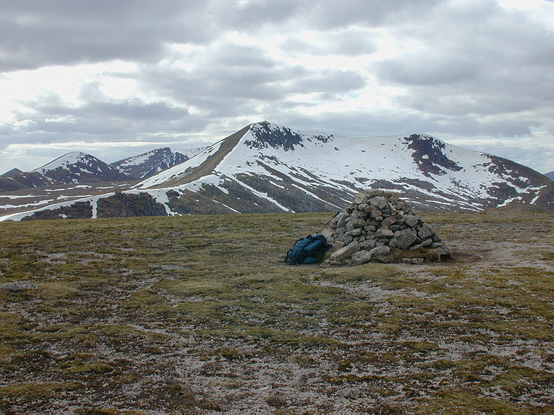 The summit of Meall nan Eun Stob Coir' an Albannaich forms the backdrop.